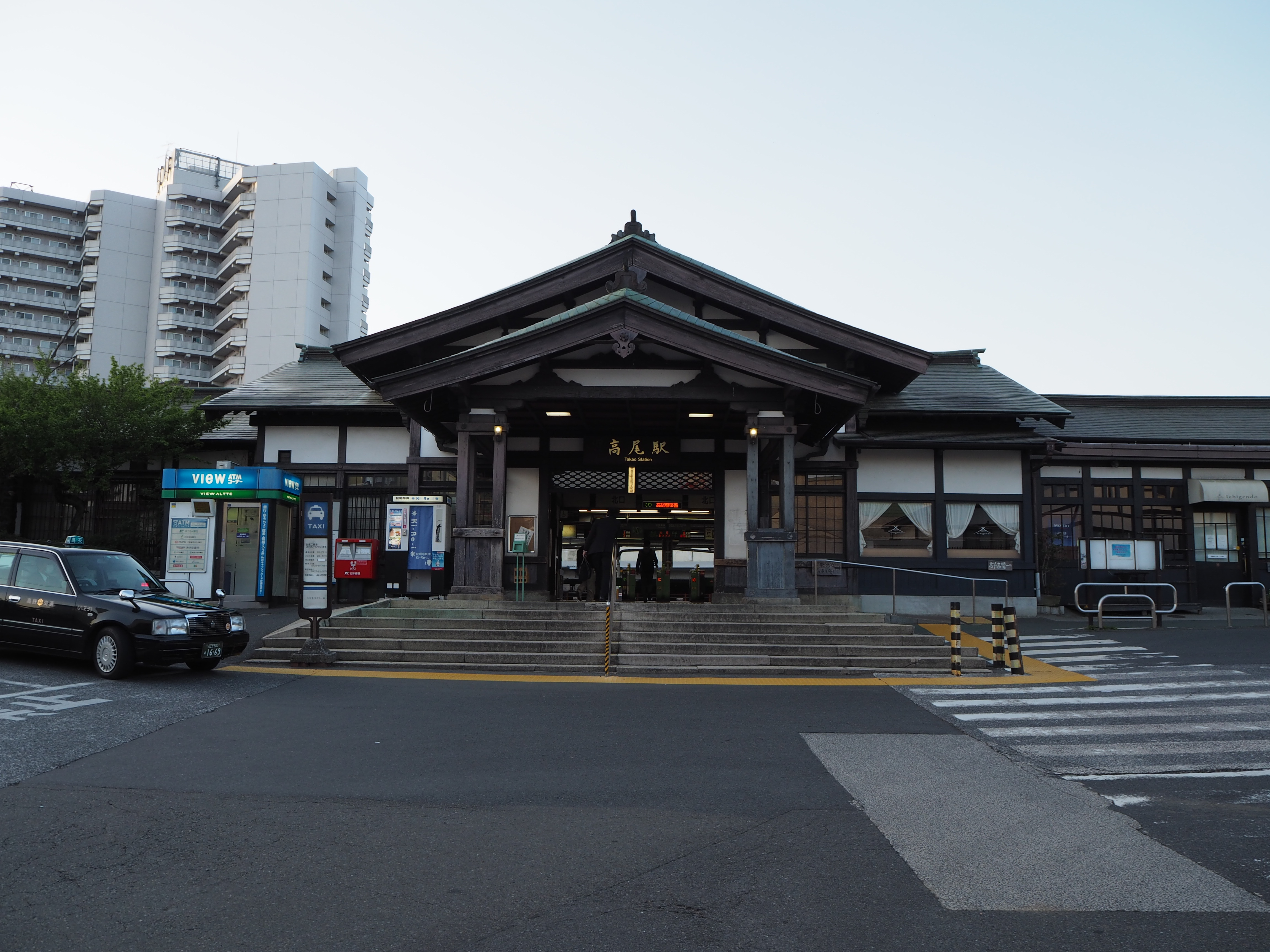 North Entrance of Takao Station